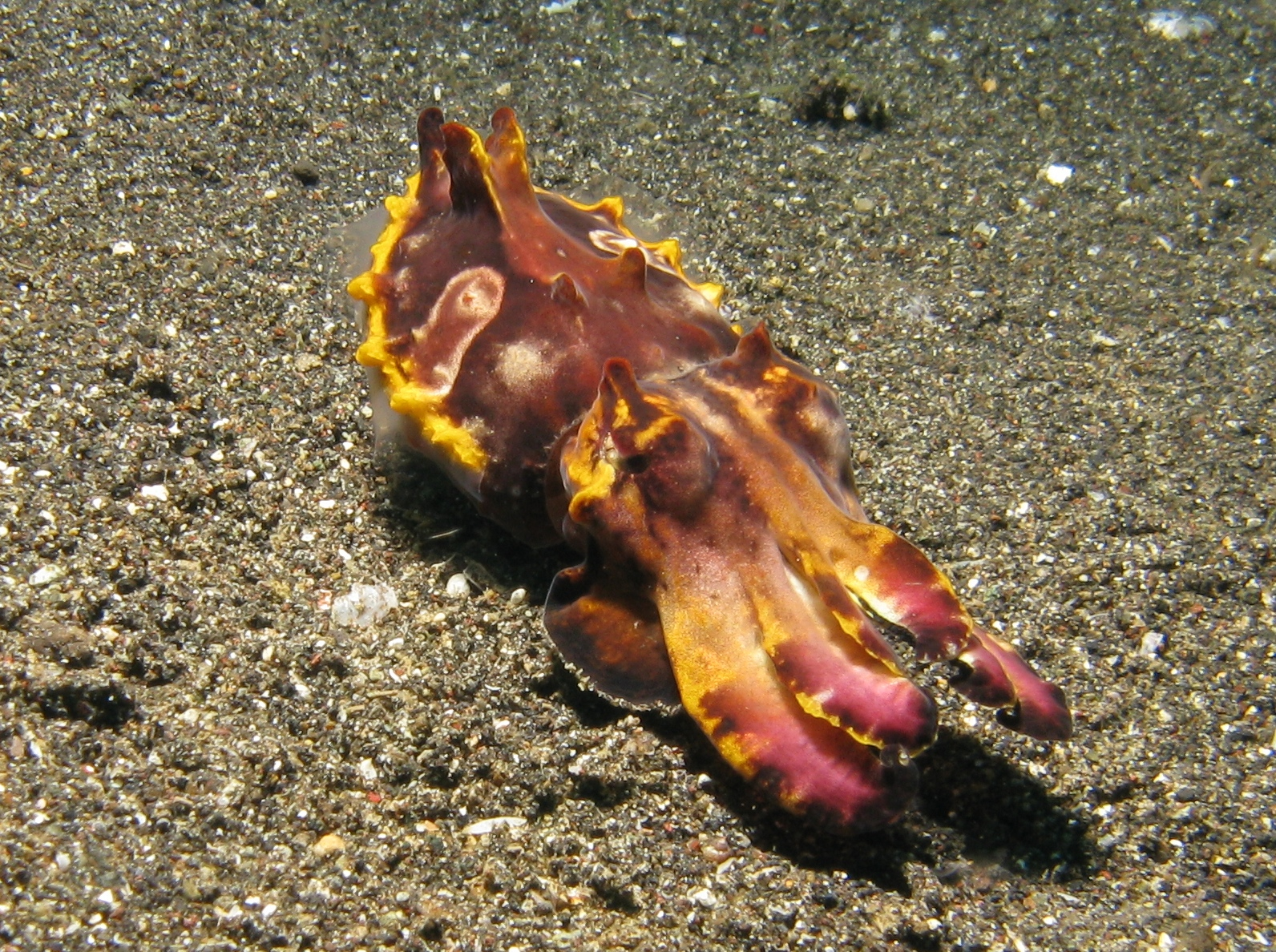 Flamboyant Cuttlefish (Metasepia pfefferi).